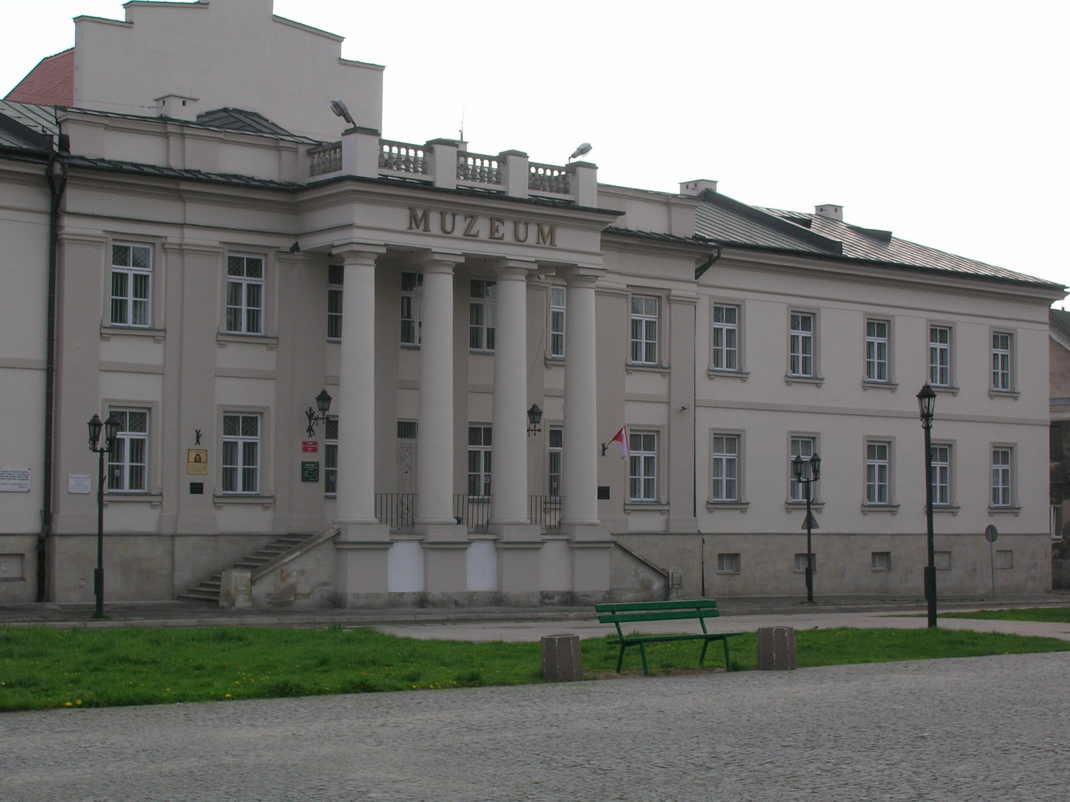 Radom - Piarist College. Now Jacek Malczewski Museum.